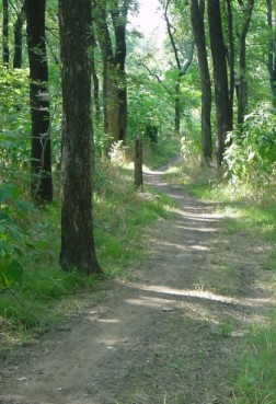 The Crosstimbers horse trail at Grapevine Lake.